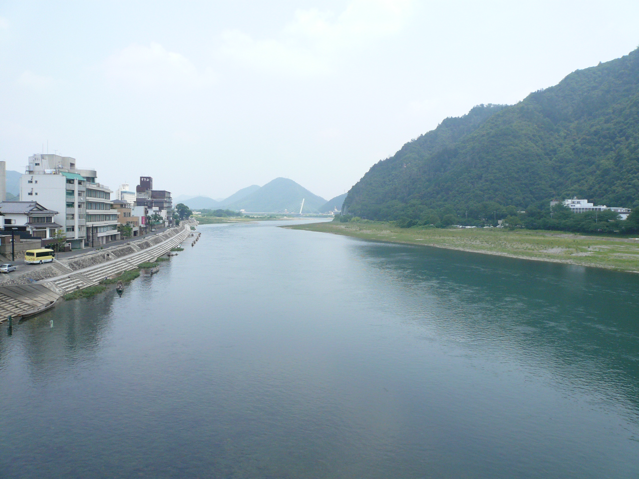 I took this picture of the Nagara River in Gifu City in July 2007.